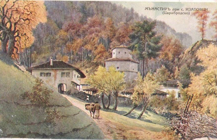 The Monastery in Izatovci (Western Bulgarian Outlands) at the end of the XIX or early twentieth century.